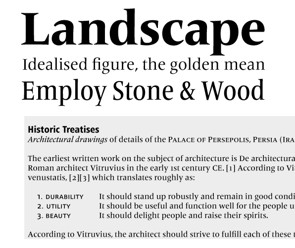 Frutiger Serif is a re-envisioning of Meridien, a typeface first released by Deberny & Peignot during the 1950s. Working closely with Adrian Frutiger, Linotype’s Type Director Akira Kobayashi expanded the original metal type version of Meridien® into a new digital family of 20 variants. Renamed Frutiger Serif, this up-to-date Meridien has new weights, widths, and styles that correspond better with several other of Frutiger’s designs. Just as Meridien has always been a fine choice for text settings, Frutiger Serif works brilliantly for large amounts of text and also at small point sizes. Its added versatility is revealed when used in combination with other families, particularly original Frutiger®, Frutiger Next®, Univers® and the new Linotype Univers®.